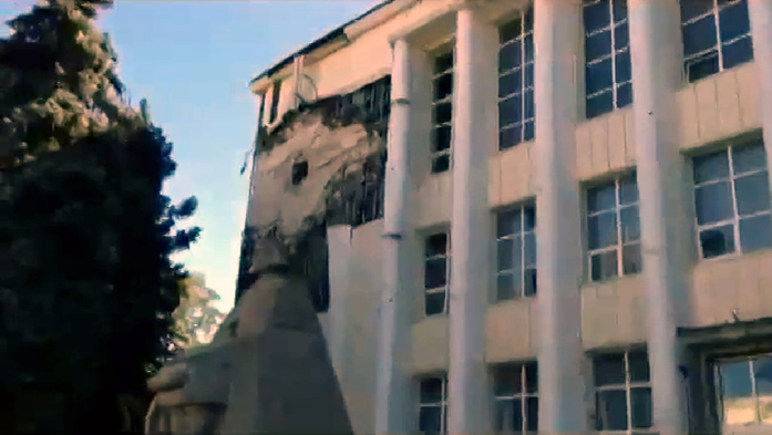 Administrative building in Luhansk hit by a shell.